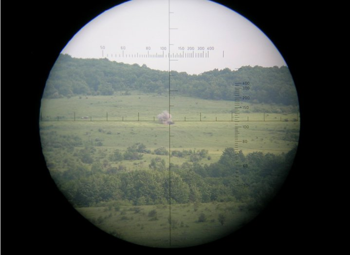 Anti tank missile